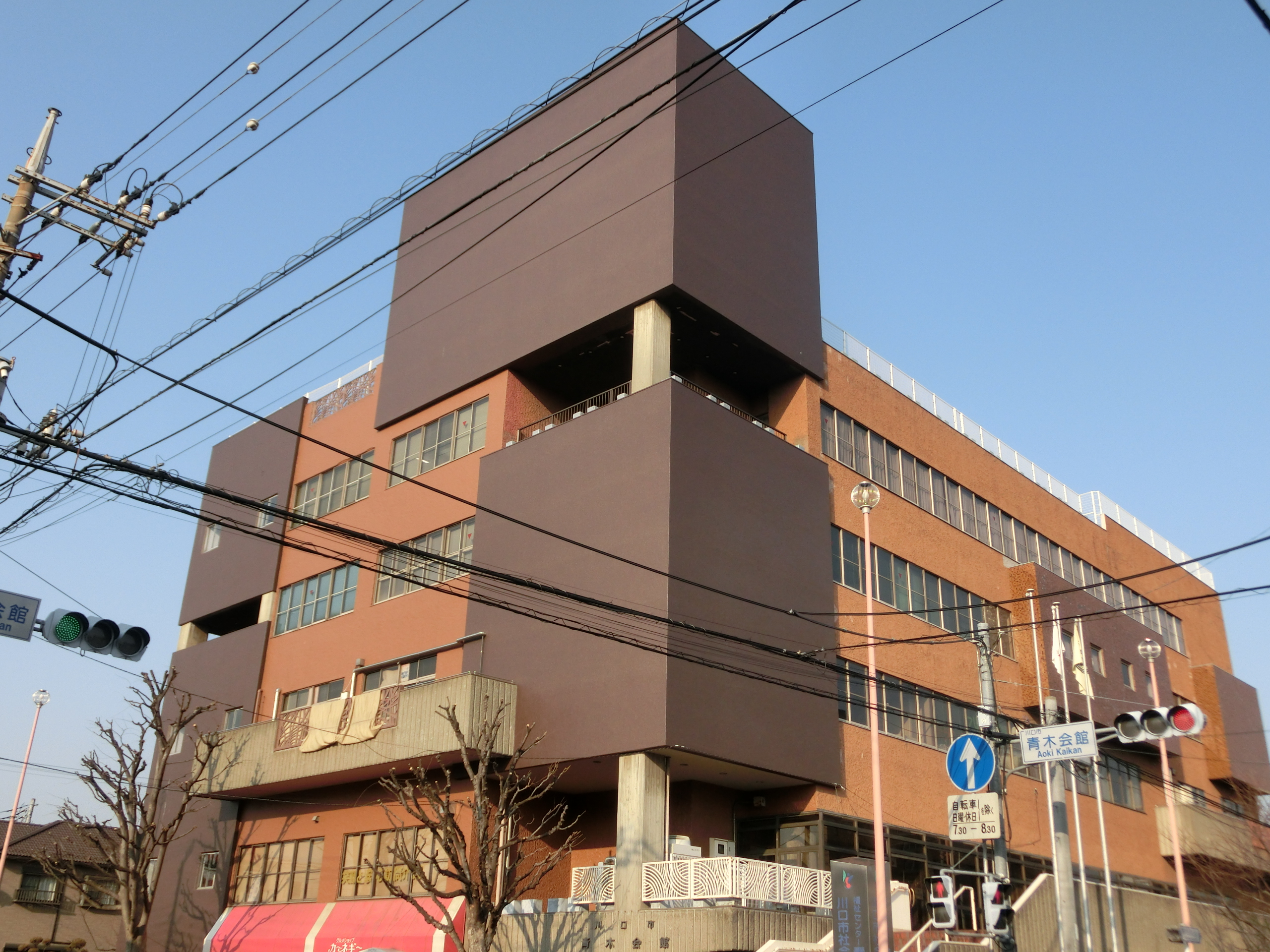 Aoki Hall